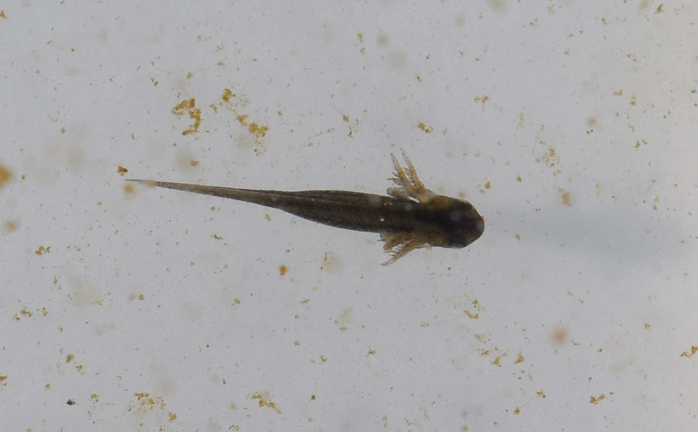 An Ambystoma maculatum (spotted salamander) larva approximately three days post hatching at the University of Mississippi Field Station.